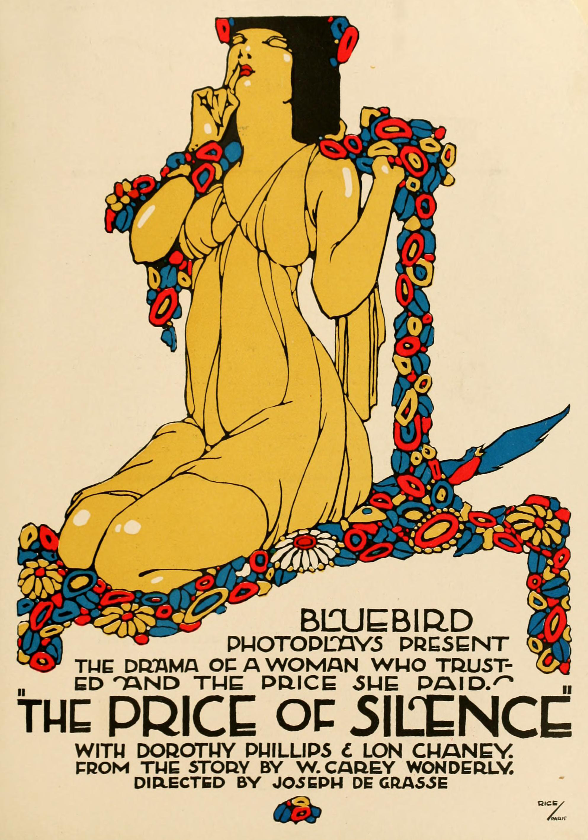 Advertisement in The Moving Picture World for The Price of Silence (1916).